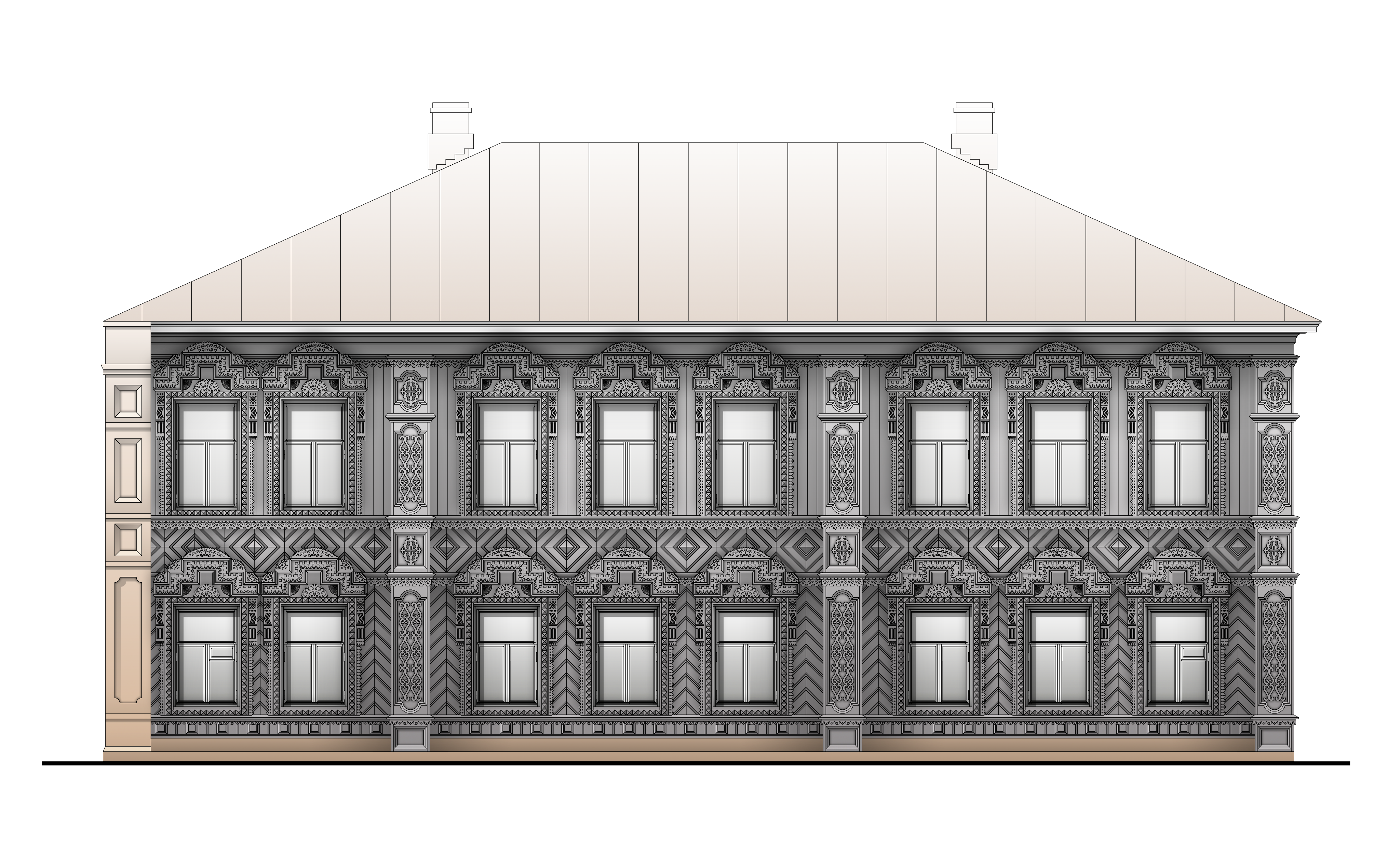 This house is located in Perm and is a typical example of the wooden buildings of Perm early XX century. Location home: 14a, Klimenko str. Absolute majority wooden houses in Russia are log hut. The house is planked with boards because it is located within the city limits. Widely used pierced work and overhead decorative elements. The paint on the facade was not preserved, so the house is shown in color, which he has now. On the left site is a wall of the bricks. It's fire division wall. Such walls prevented the spread of fire in dense development.